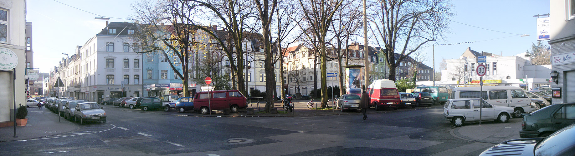 Lenauplatz (Lenau square), Cologne (Neu-Ehrenfeld), Germany.